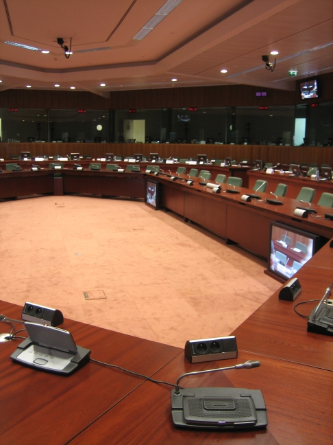 Former main meeting room of the Council of the European Union and European Council prior to 2017, (Justus Lipsius building, Brussels). Taken on EU open day 2007.